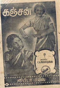 Song book cover of Tamil film Kanjan (1947)